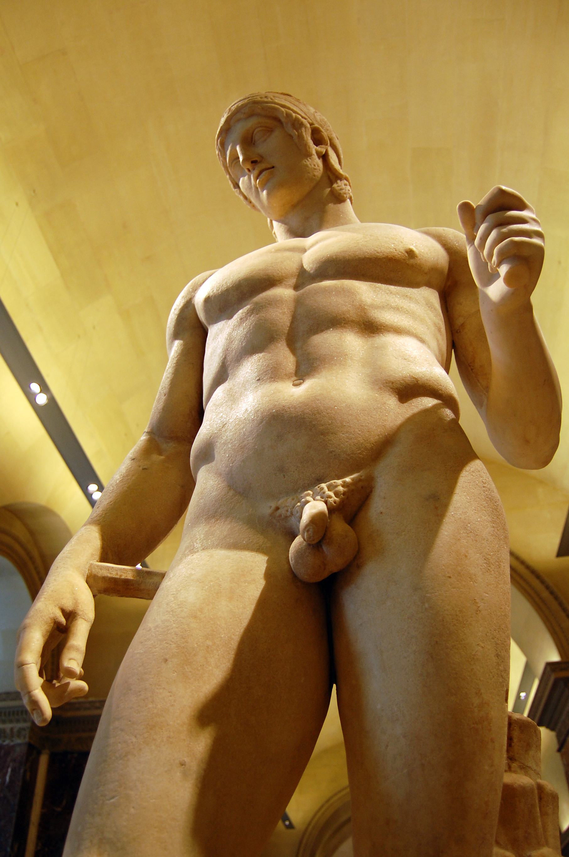 Naked, helmeted warrior holding a spear and wearing a bracelet at the right ankle, probably a representation of Ares. Free-standing statue, Roman Imperial period. From the agora in Athens.